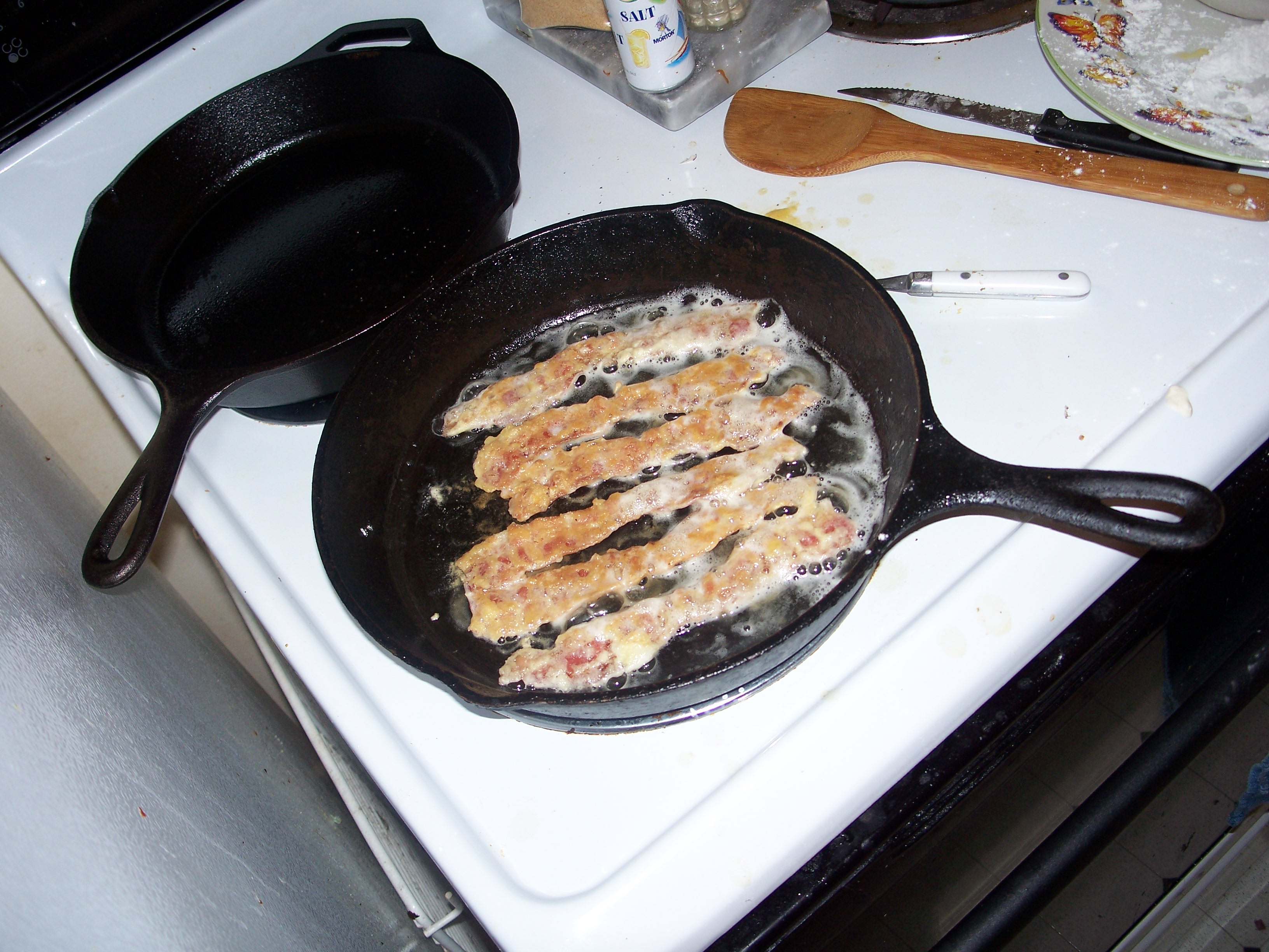 Bacon grease and bacon.